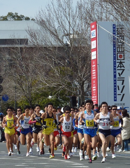 Nobeoka Nishinippon Marathon in 2011